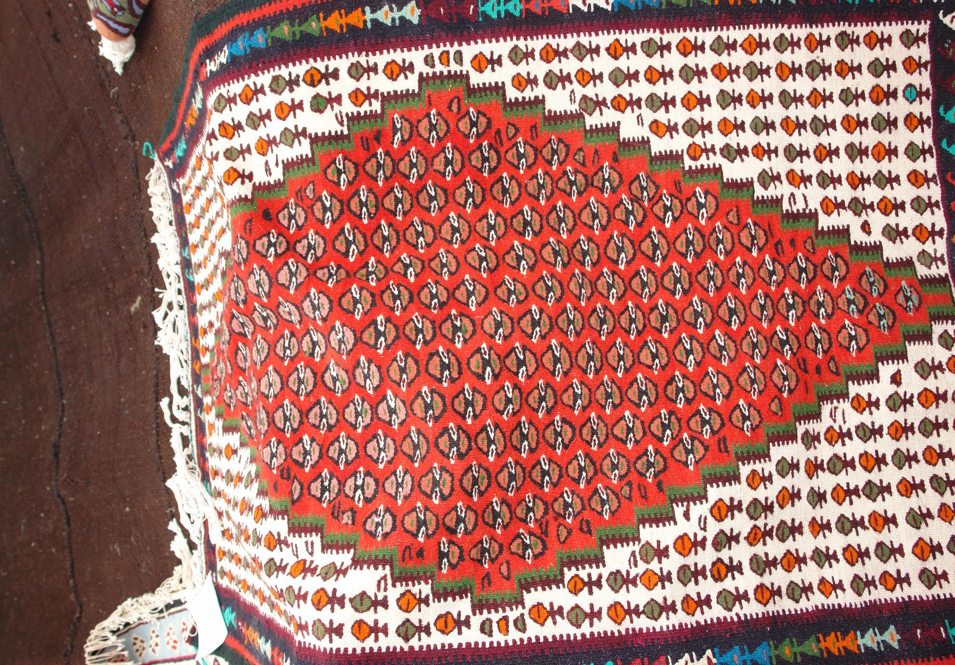 Gelim of Harsin in Kermanshah, Tarh-e-Aroosak (طرح عروسک, "Doll Design") Type